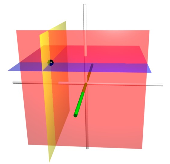 Coordinate surfaces for a Cartesian coordinate system.